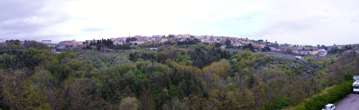 View of Pian San Leonardo, a district of Larino, in the province of Campobasso, Molise